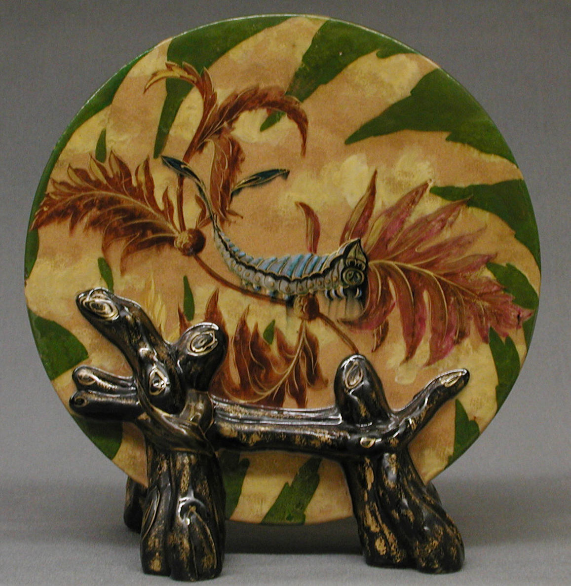 French, Nancy; Vase; Ceramics-Pottery